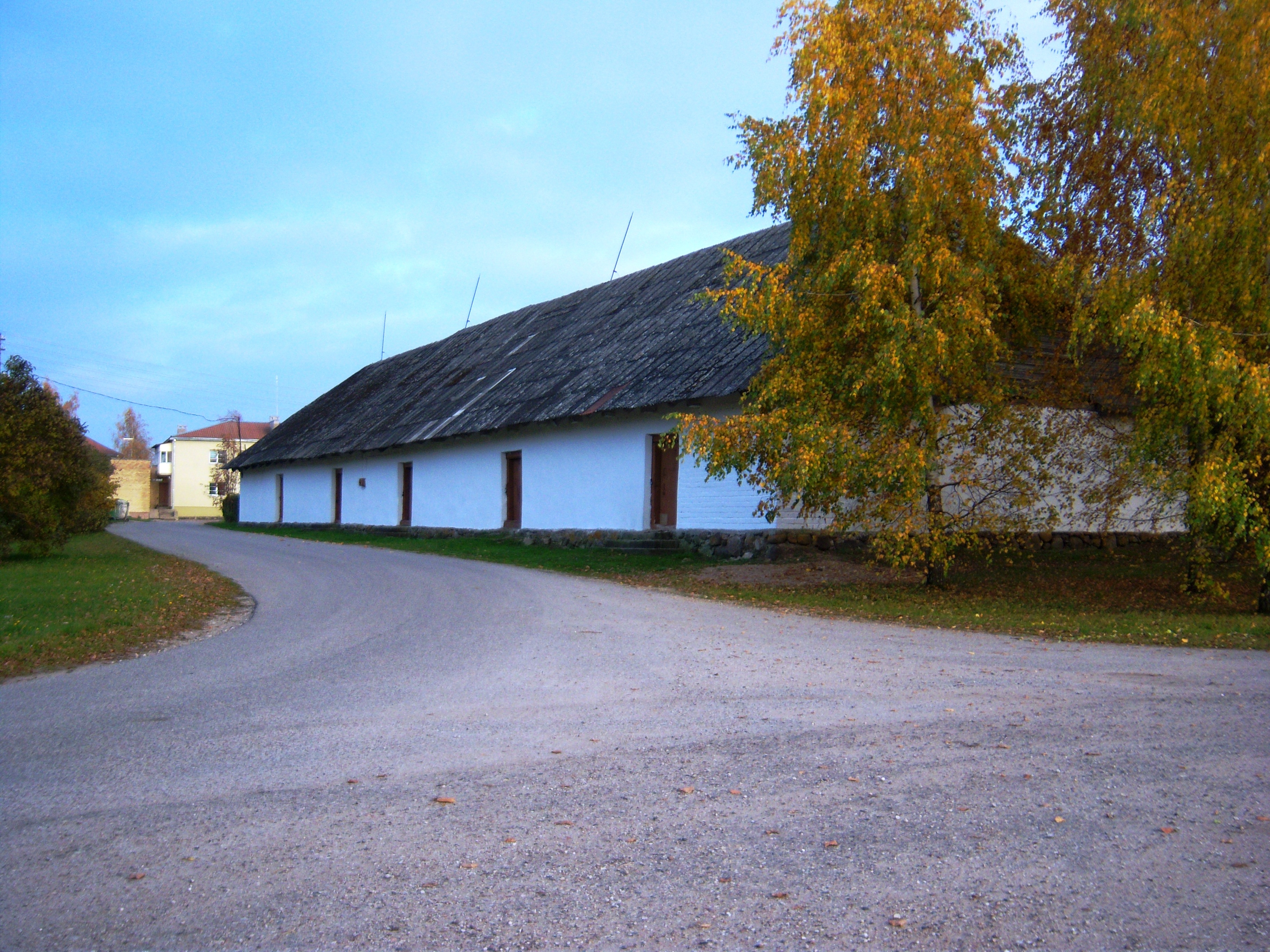 Former manor in Aknystos, barn, Anykščiai District, Lithuania